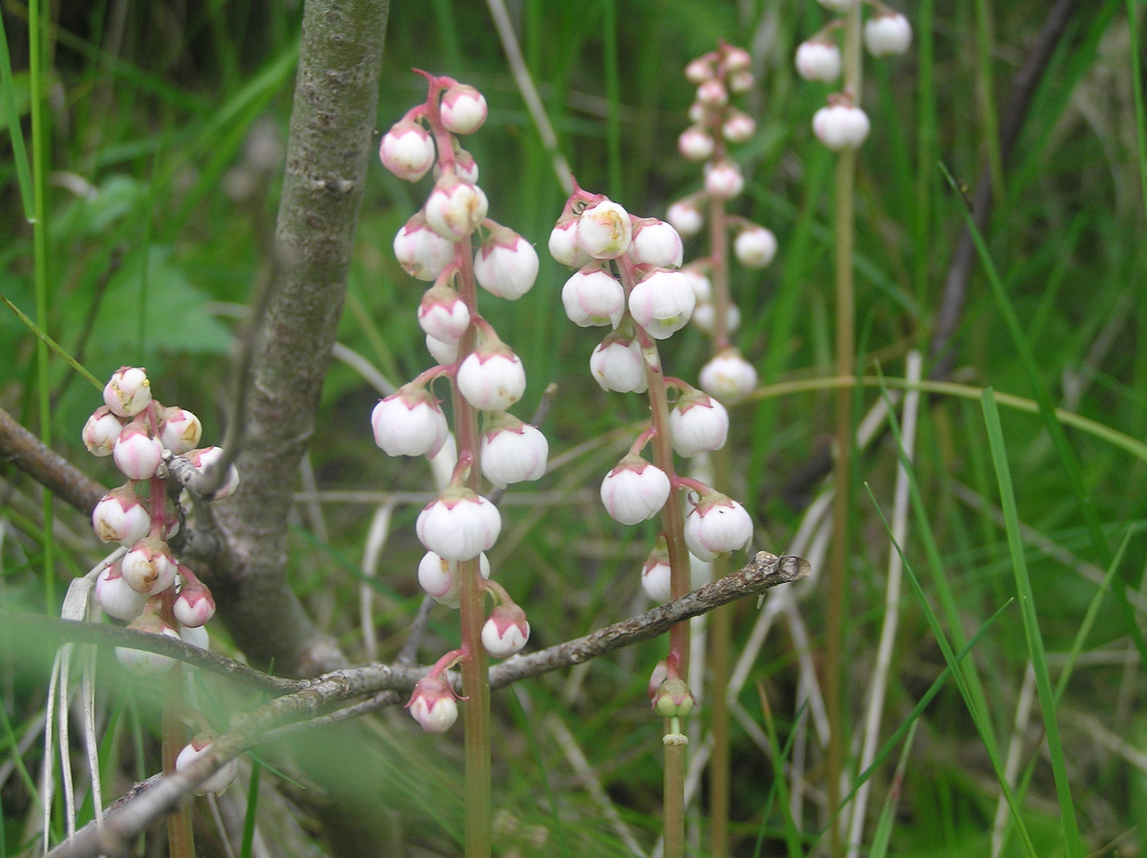 Pyrola minor, Králický Sněžník Mountains, Czech Republic